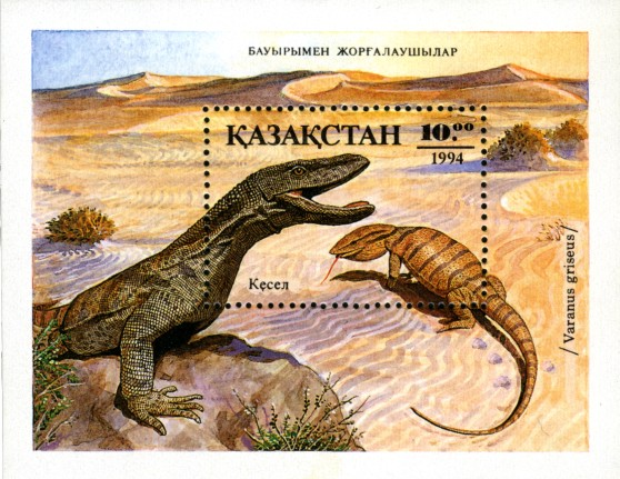 Stamp of Kazakhstan